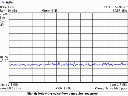 Spectrum analyzer display, showing noise floor. Self made.